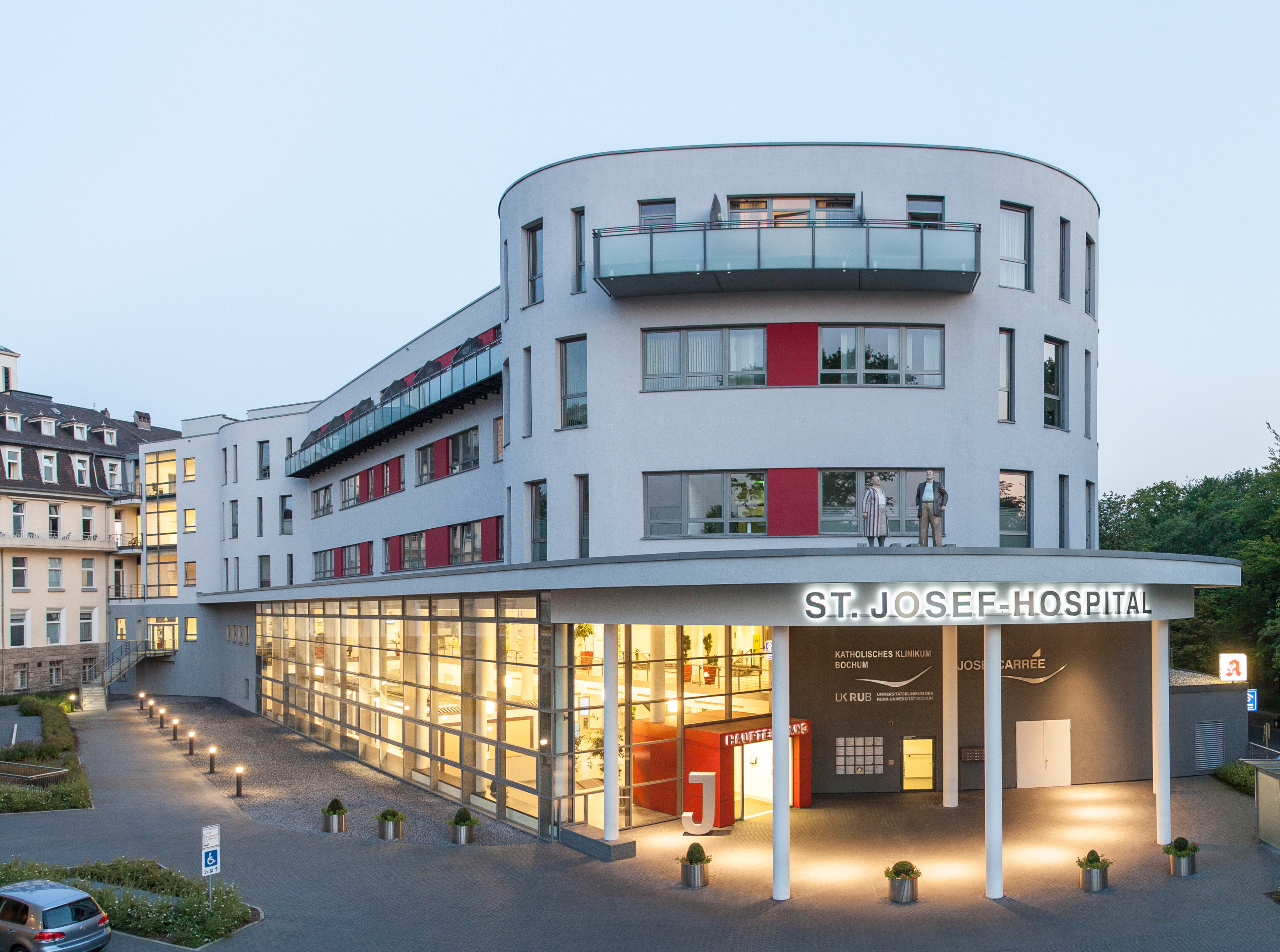 Main entrance of St. Josef-Hospital